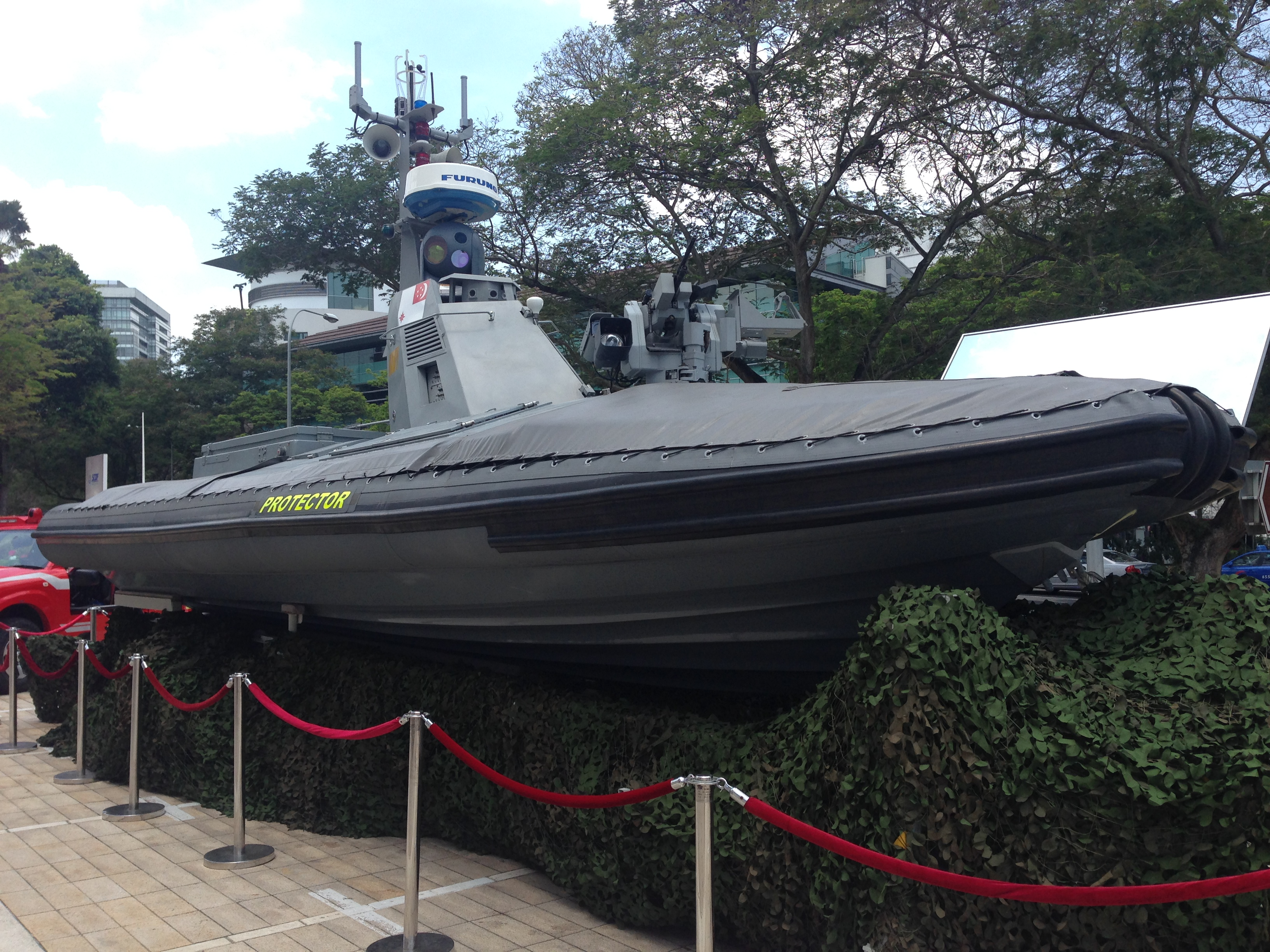 A Republic of Singapore Navy Protector Unmanned Surface Vehicle on display at the National Museum of Singapore as part of an exhibition called Because You Played A Part: Total Defence 30: An Experiential Showcase from 15 to 23 February 2014, commemorating the 30th anniversary of Total Defence in Singapore.